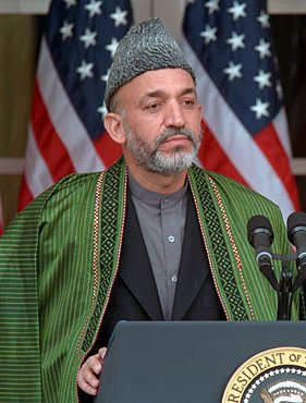 "Chairman Karzai, I reaffirm to you today that the United States will continue to be a friend to the Afghan people in all the challenges that lie ahead," said the President in his remarks during their joint press conference. White House photo by Paul Morse.